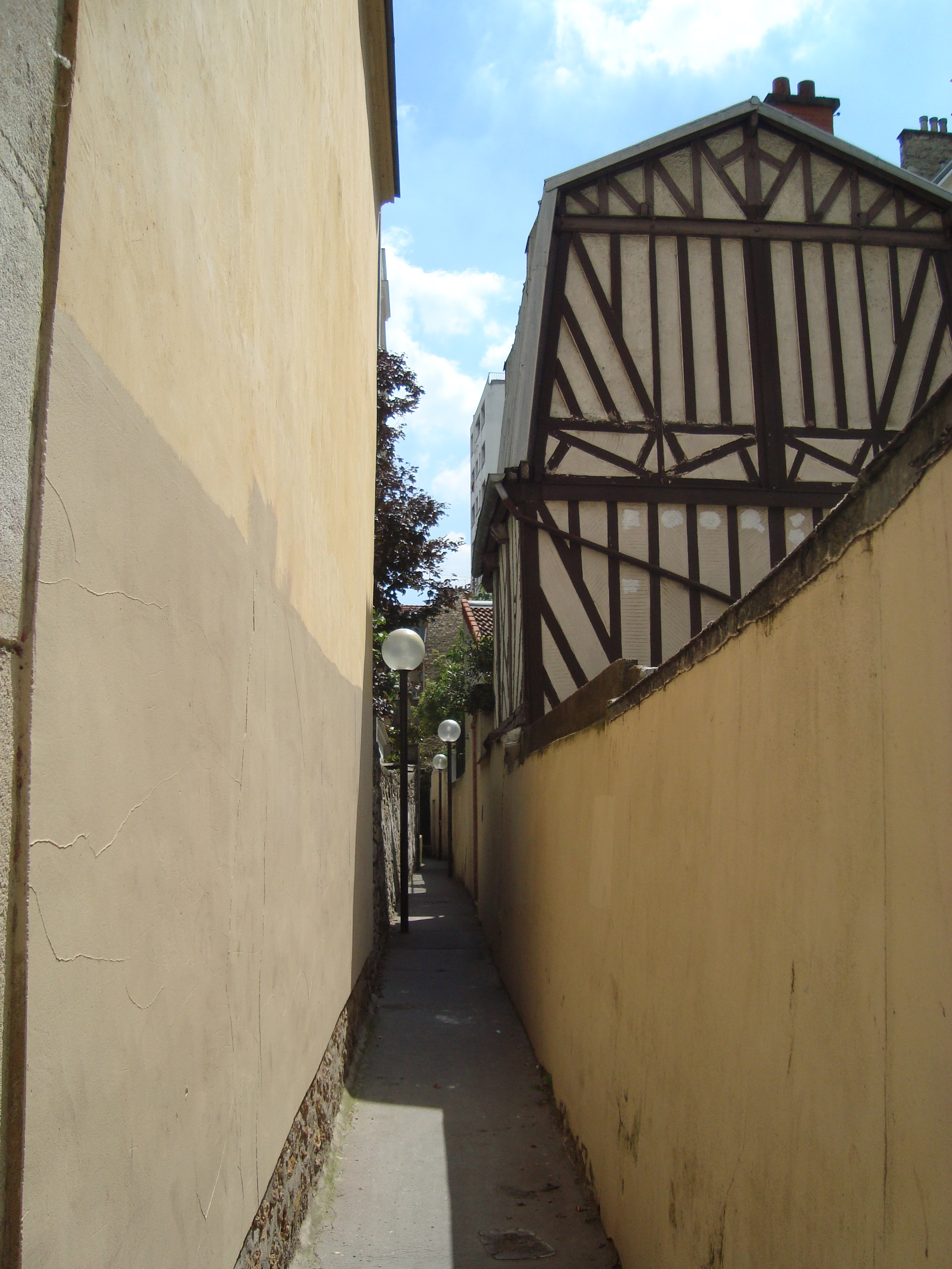 Last part of the sentier des Merisiers exiting on the rue du Niger in Paris